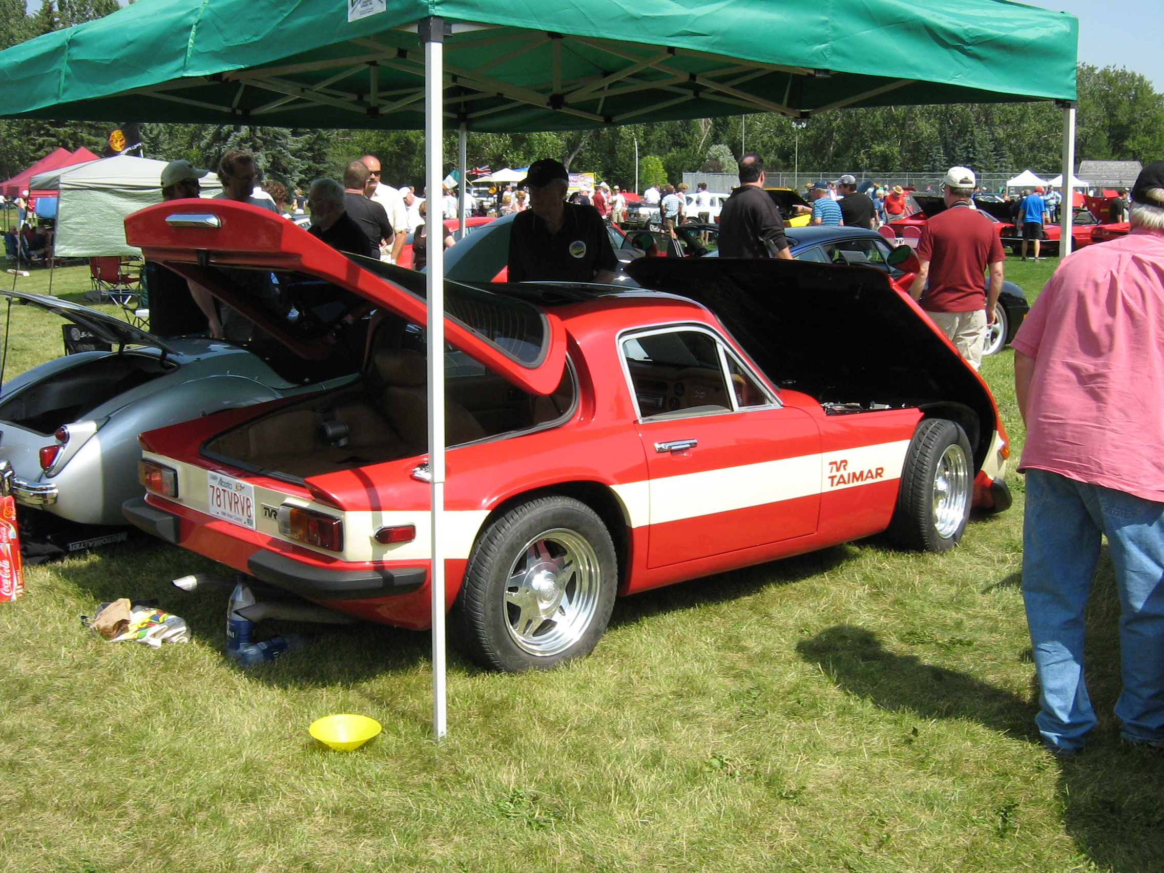 1978 TVR Taimar (rear)